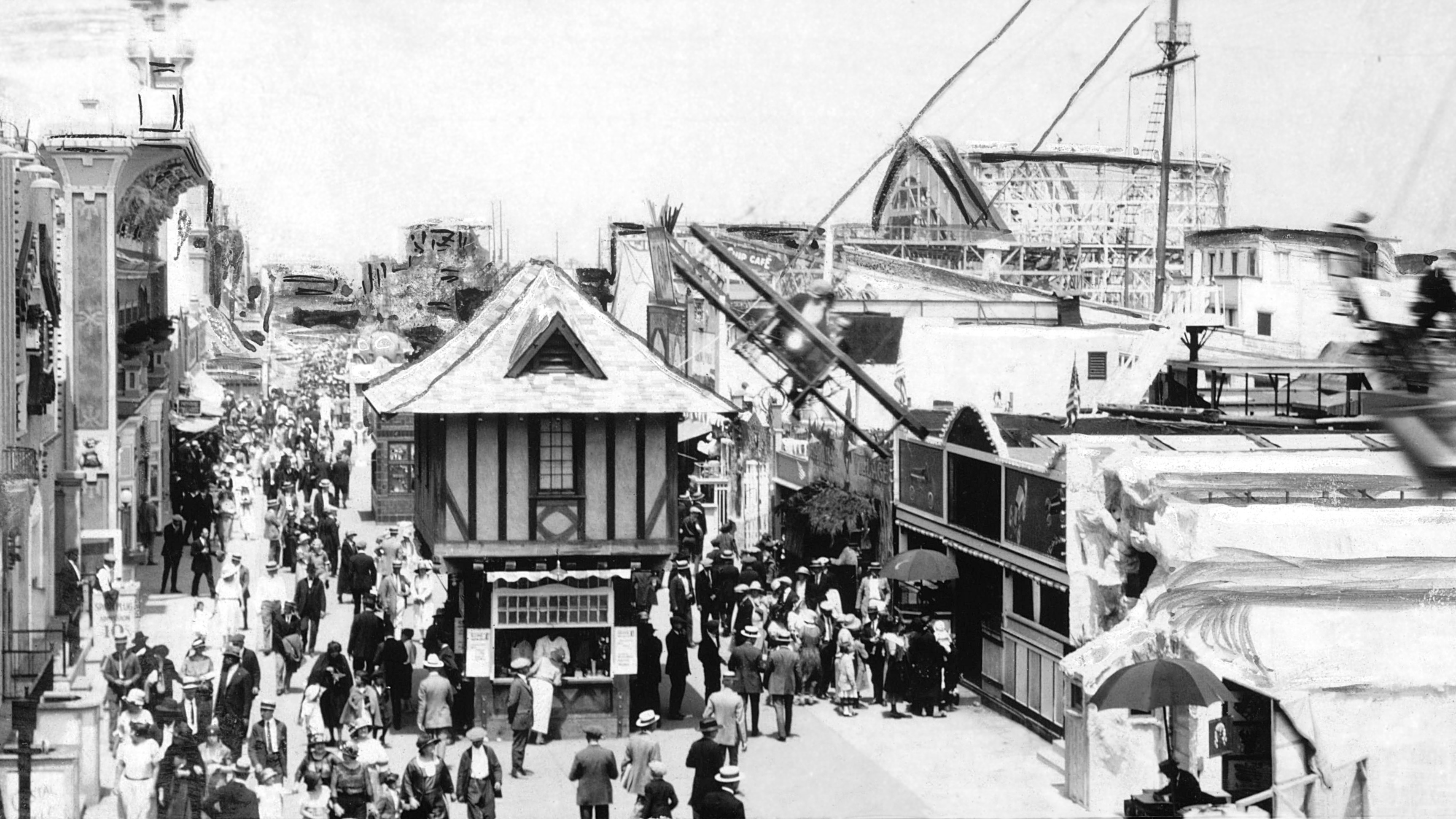 Crowds outside at the Venice Beach Amusement Park in Venice, between Seventeenth Street and Thirty-fourth Street along the ocean front, ca.1900-1920 Photograph of crowds outside at the Venice Beach Amusement Park in Venice, between Seventeenth Street and Thirty-fourth Street along the ocean front. The rollercoaster is in the background.; Streetscape. Los Angeles.